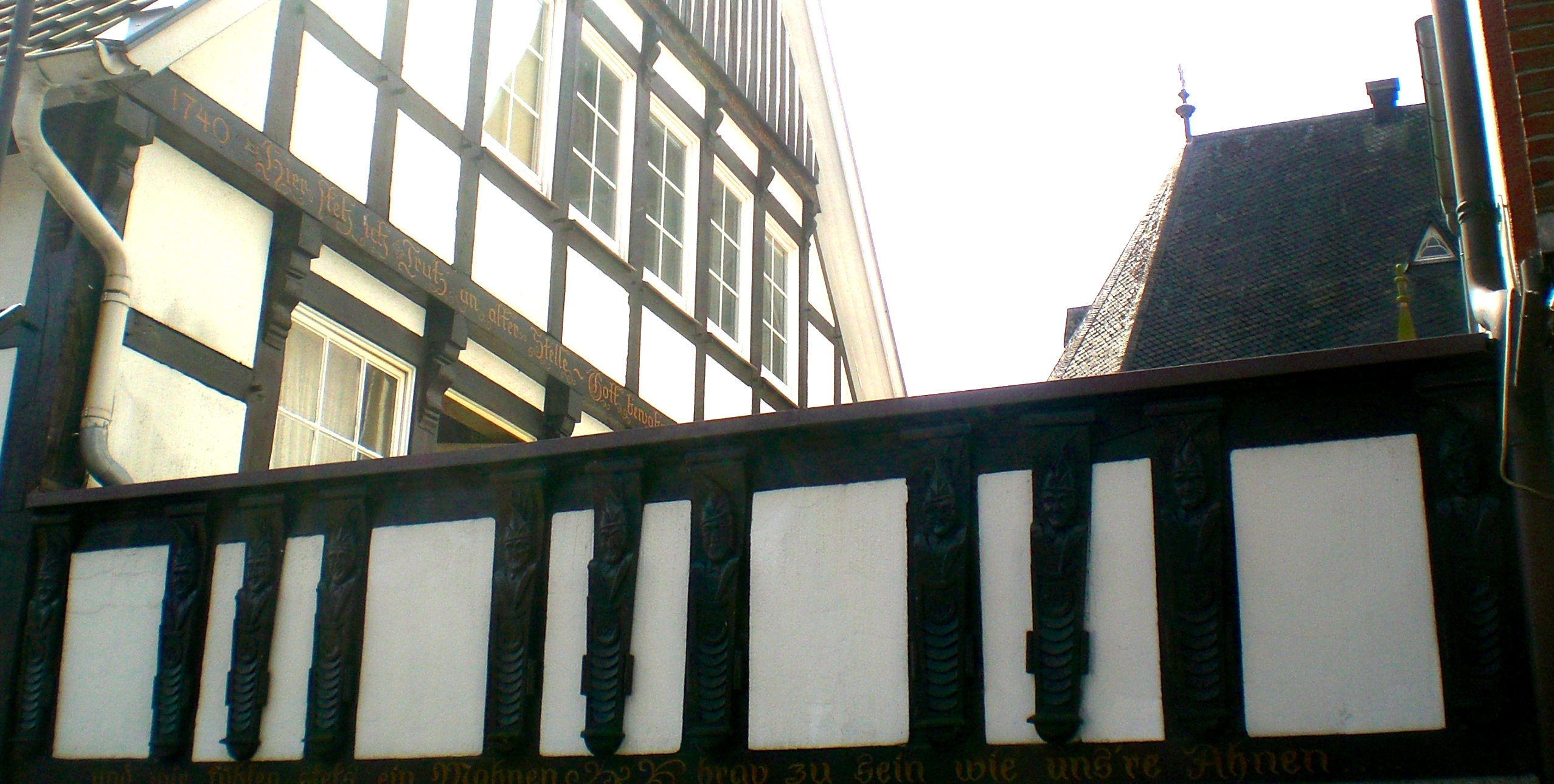 The mock parliament "Elferrat" of the local carnival at a timber framed house in Damme, Lower Saxony, Germany